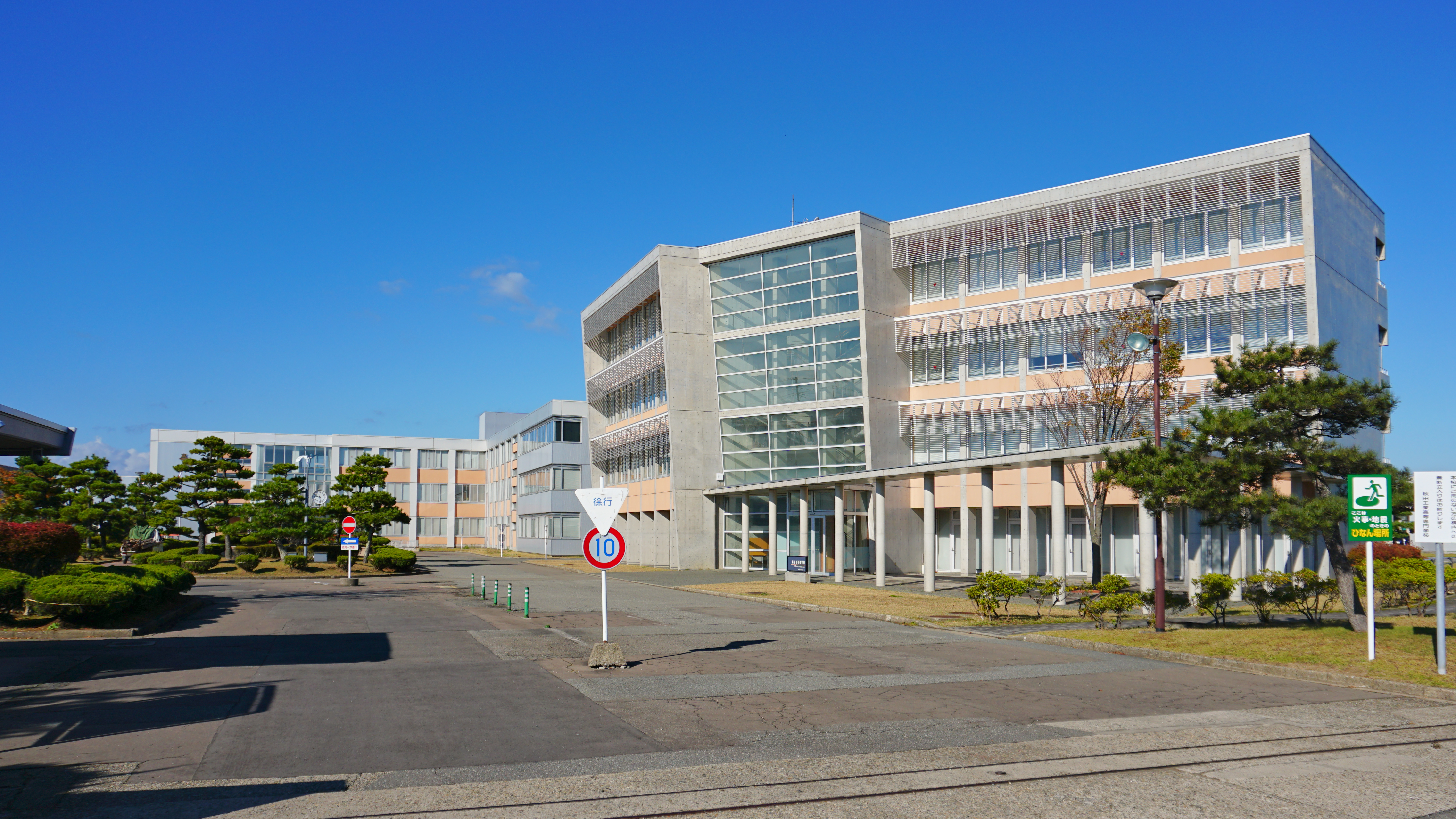 National Institute of Technology, Akita College in Akita City, Japan